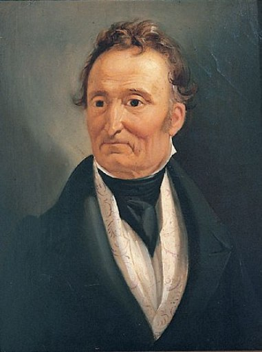 Tommaso Gasparotti (1785-1847), palaeographist and writer from Parma. Painting by Giovan Battista Borghesi in the Museum Glauco Lombardi, Parma.